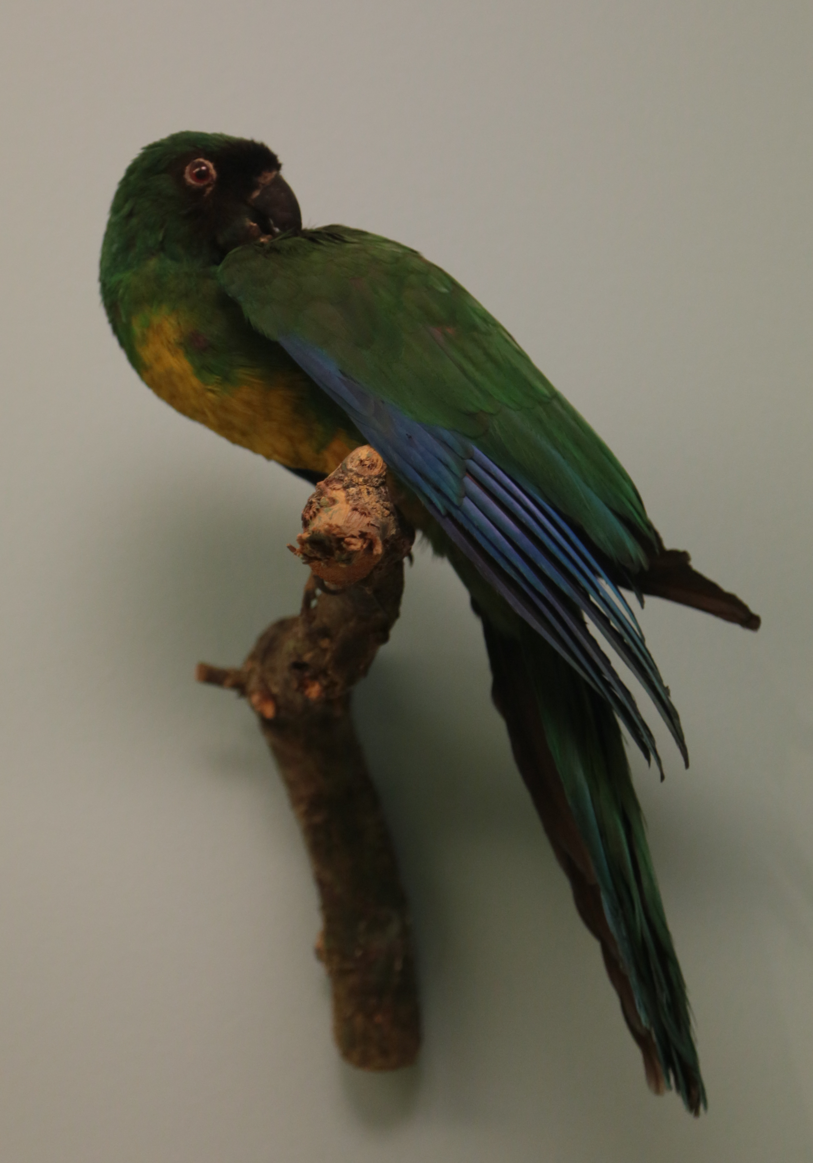 Masked parrakeet, (Prosopeia personata), Masked Shining Parrot , Birds Gallery, Natural History Museum, London